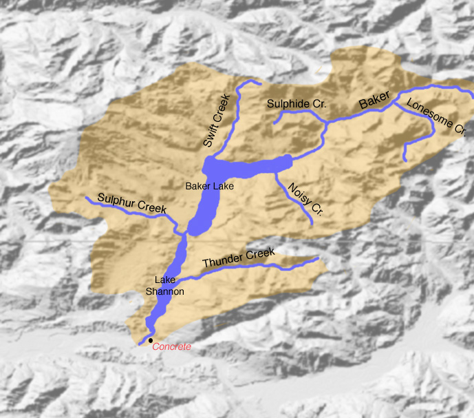 Map of the Baker River, a tributary of the Skagit River, northern WA